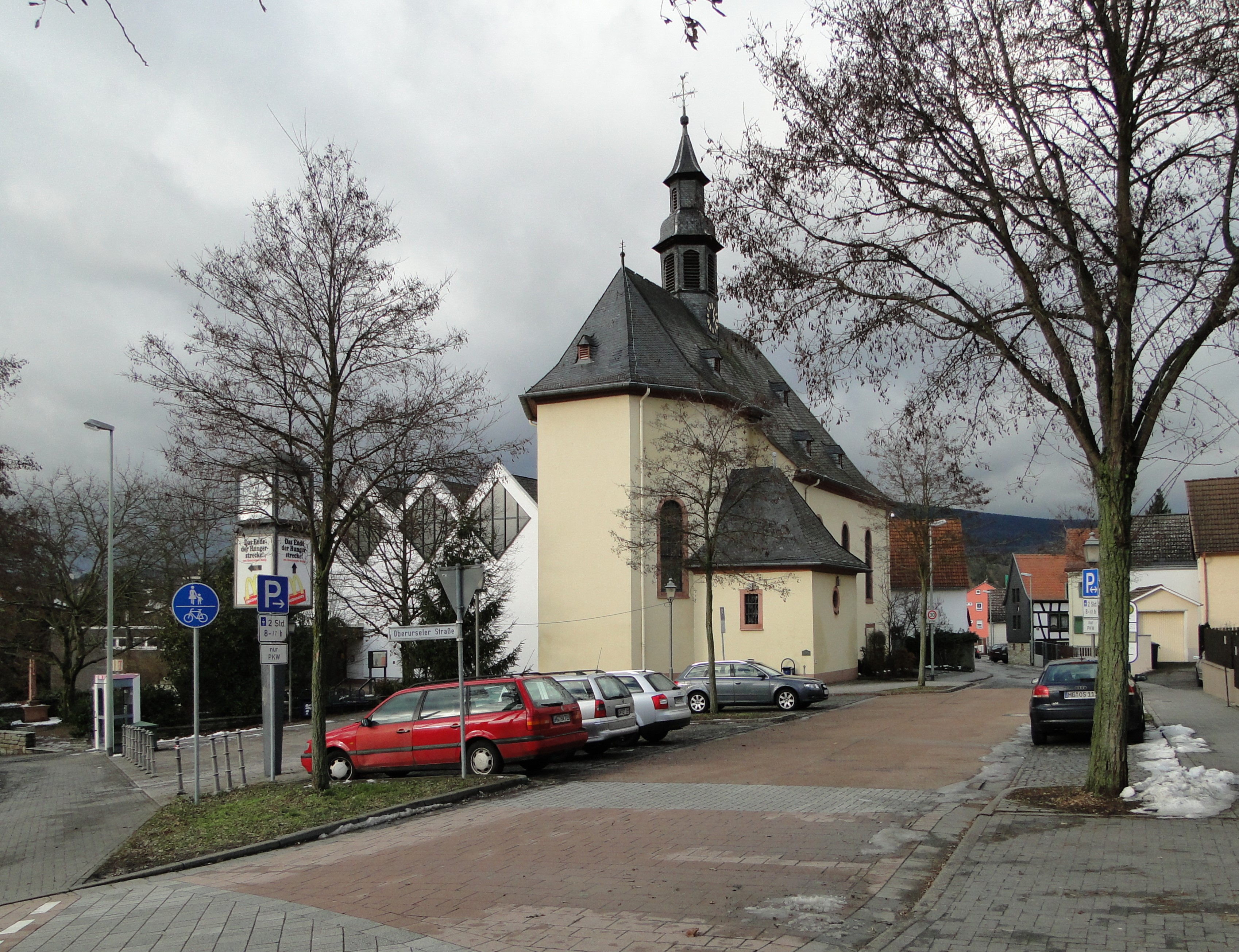 "St. Vitus", rom. cath. church, in Kronberg-Oberhoechstadt.